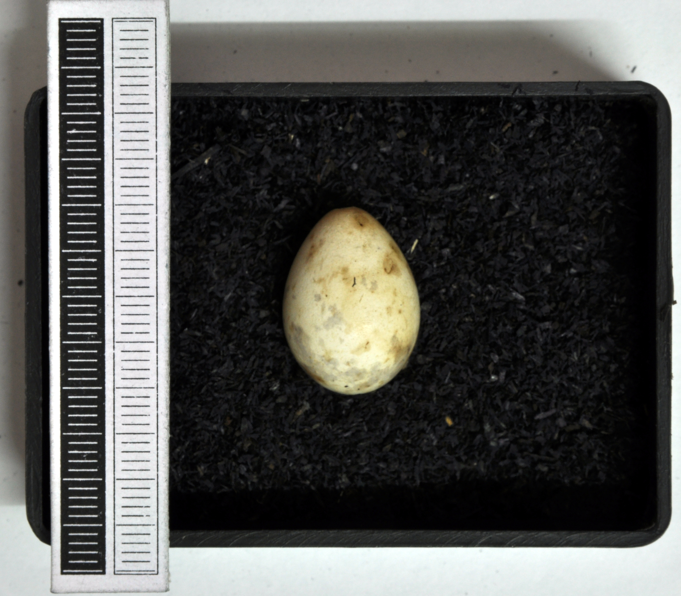 Garden warbler Sylvia borin, egg, Coll. Museum Wiesbaden, Origin: , Ämäl, Sweden, 07.06.1963, leg. W. Abelmann